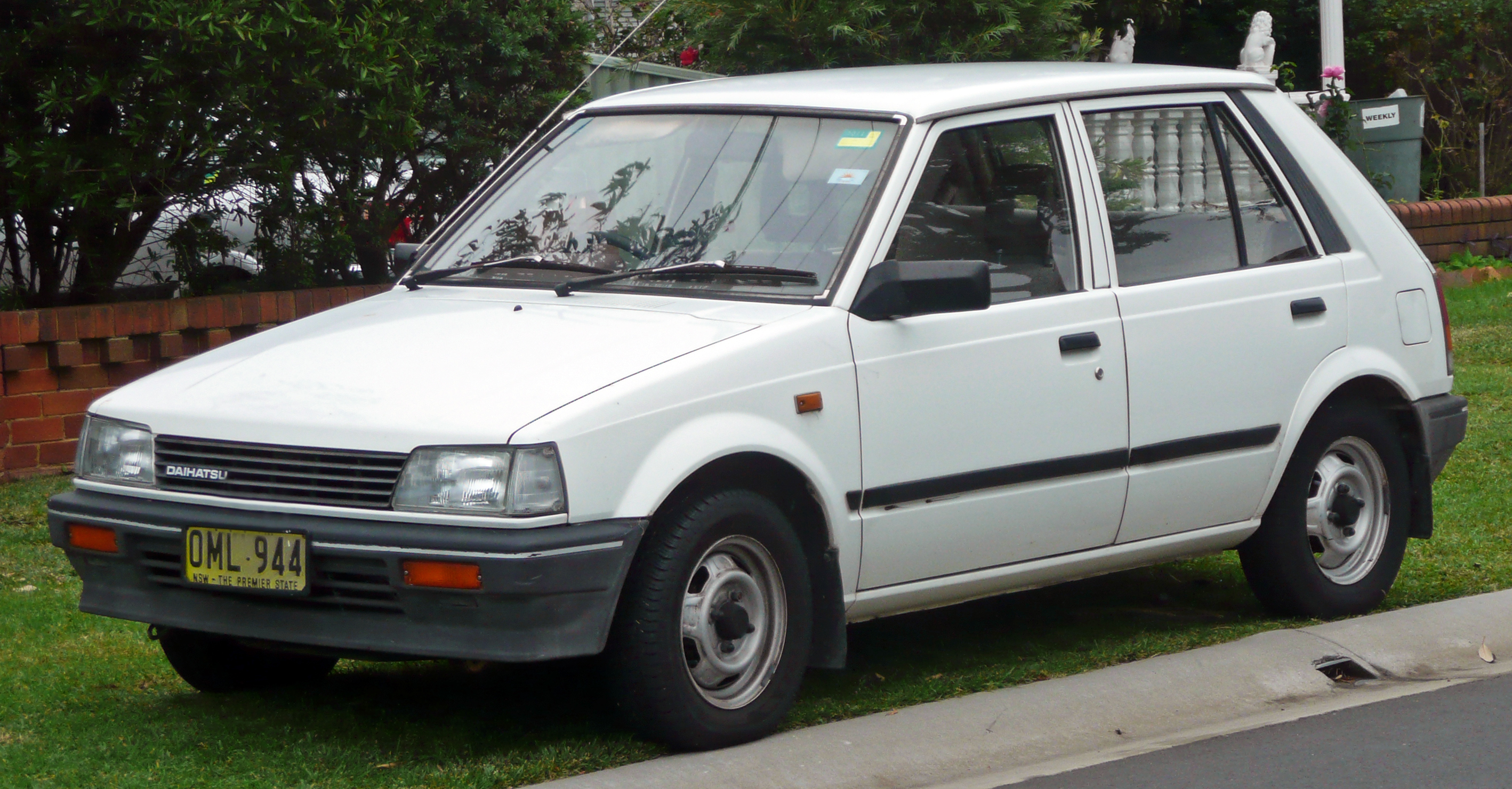 1985–1987 Daihatsu Charade (G11) CX 5-door hatchback. Photographed in Cronulla, New South Wales, Australia.